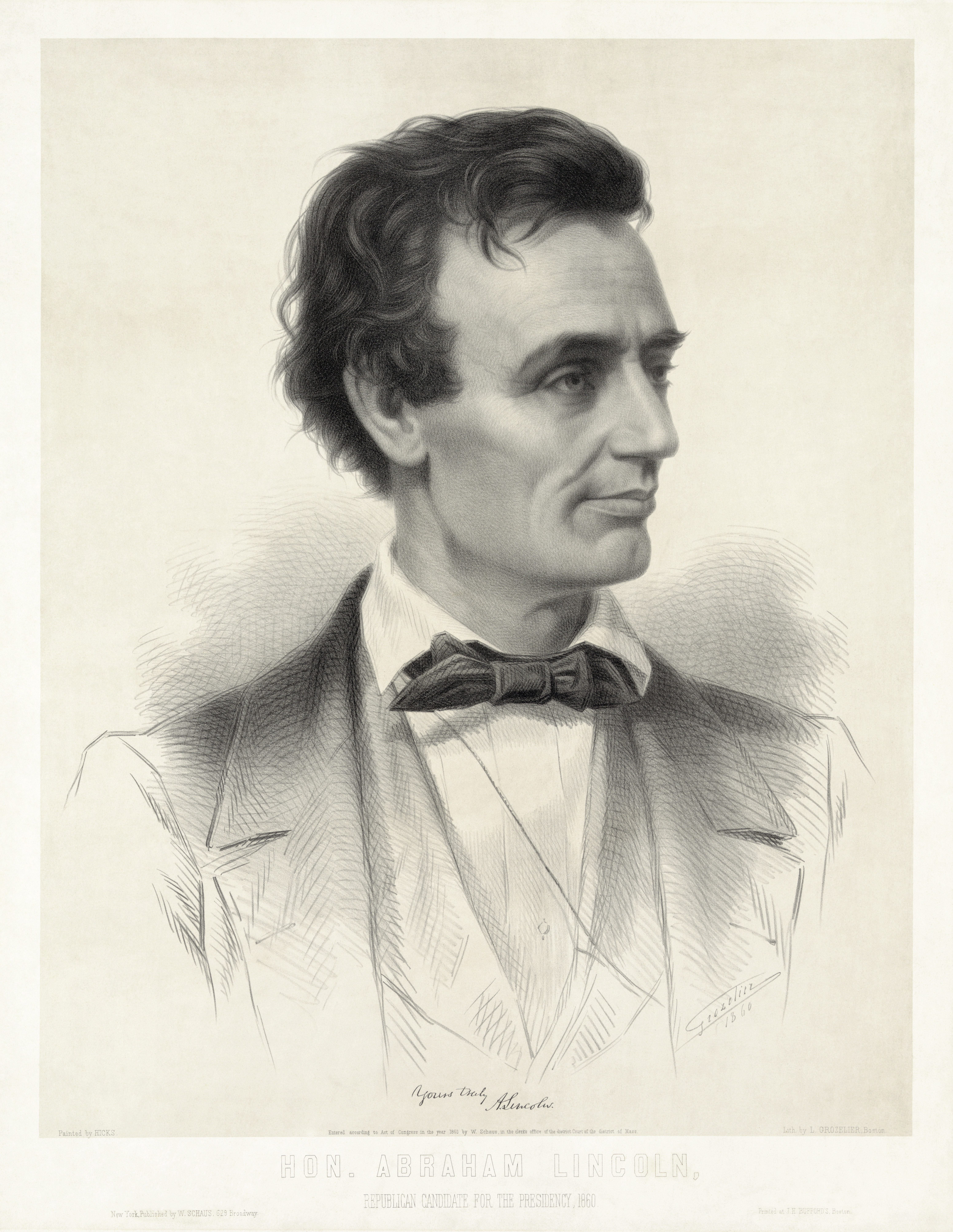 "Hon. Abraham Lincoln, Republican candidate for the presidency, 1860" - Lithograph by Leopold Grozelier, et al, showing the young Abraham Lincoln, before he grew his iconic beard. According to the Library of Congress, "Thomas Hicks painted a portrait of Lincoln at his office in Springfield specifically for this lithograph." This painting is in the collections of the Chicago Historical Society.